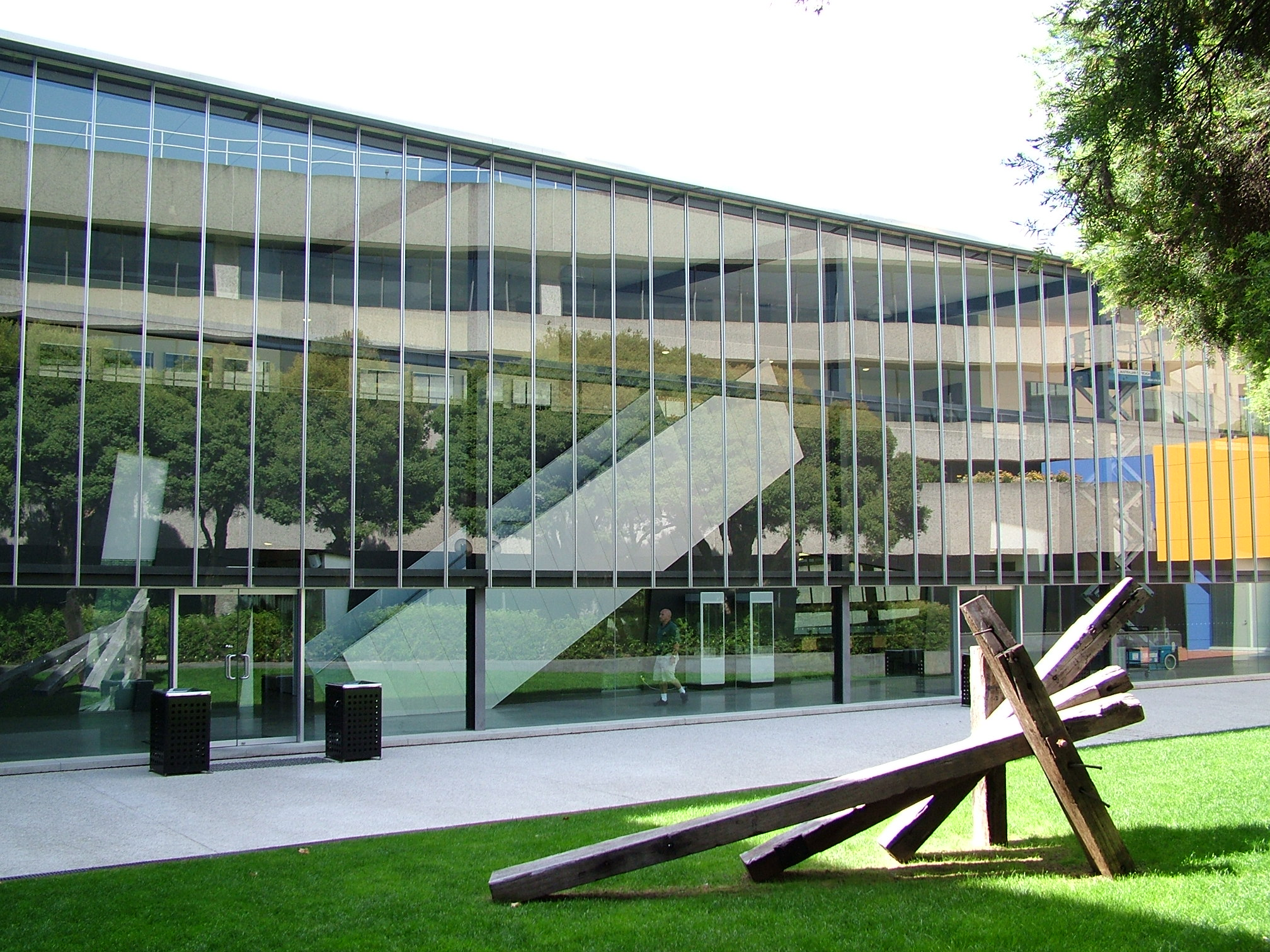 Bildet er tatt på Monash University, Caulfield Campus, Melbourne, Australia (2005) Jarle Andersen